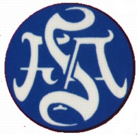 This is a logo mark of Fuji Supar Auto. This logo mark was filled in on the grip in the stock and each part of the gun.